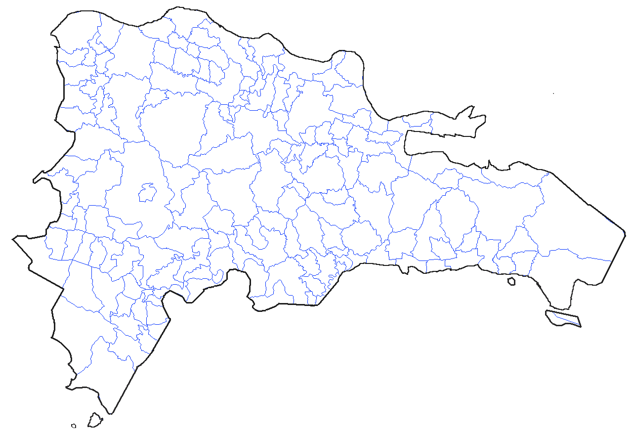 New municipalities of Baitoa and Matanzas